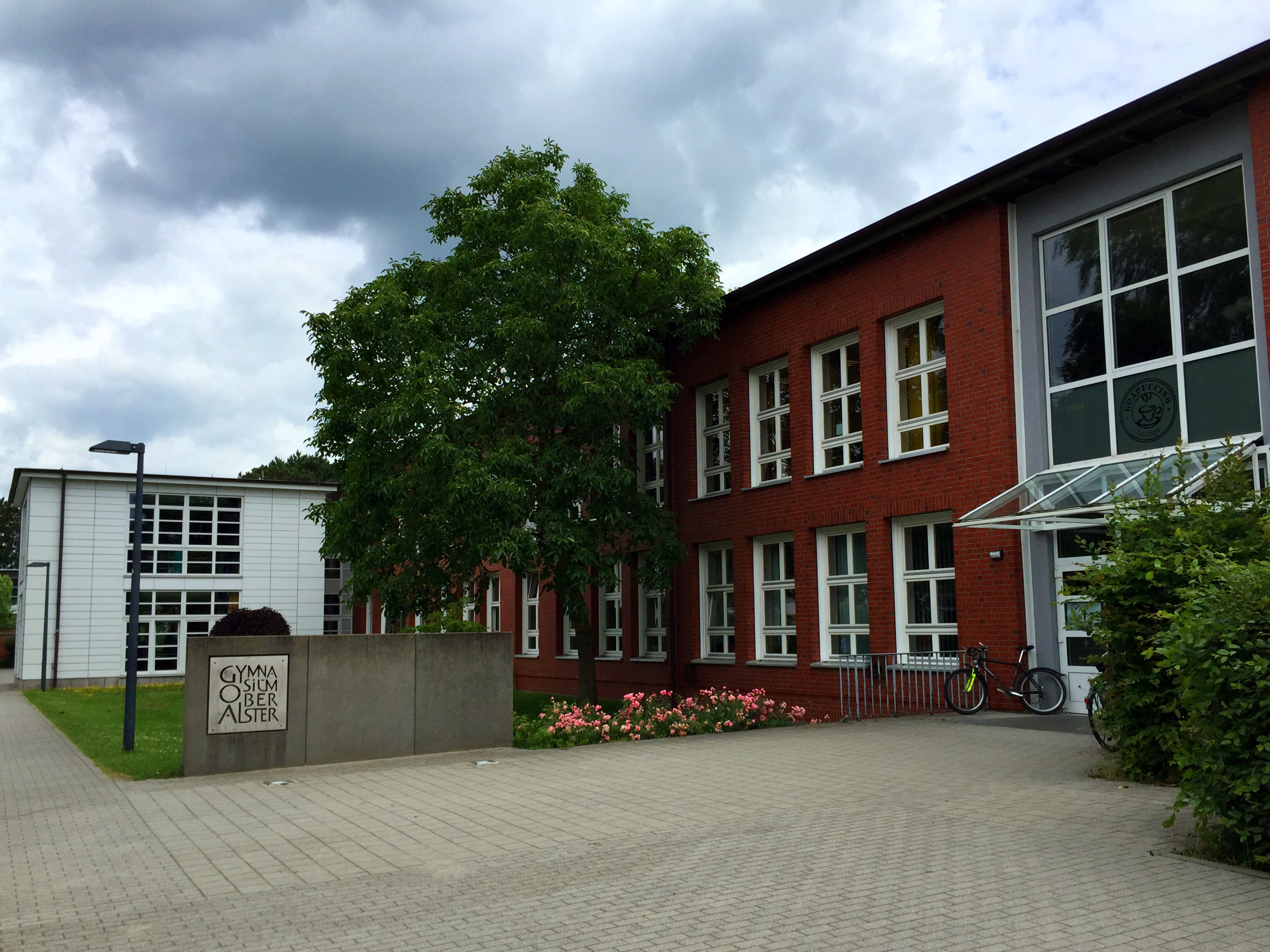 Picture of the Gymnasium Oberalster in Hamburg, Germany.